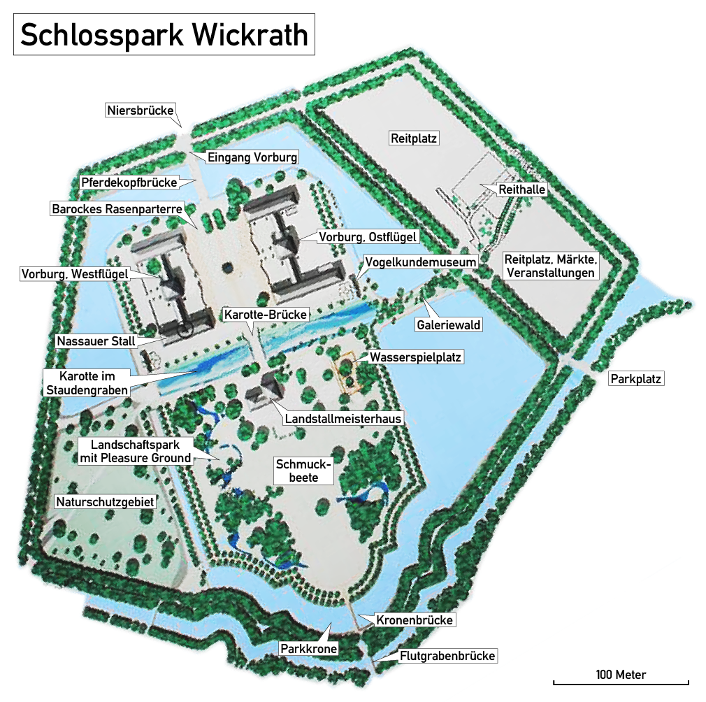 Map of Schloss Wickrath in Mönchengladbach